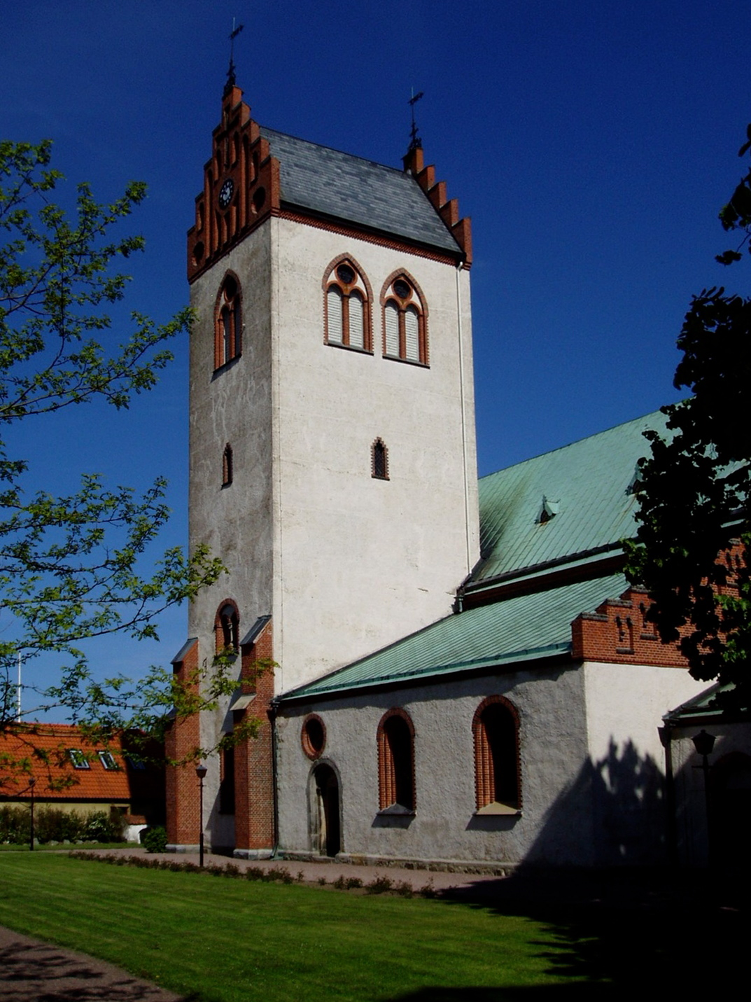 Church at Hörby, Scania, Sweden